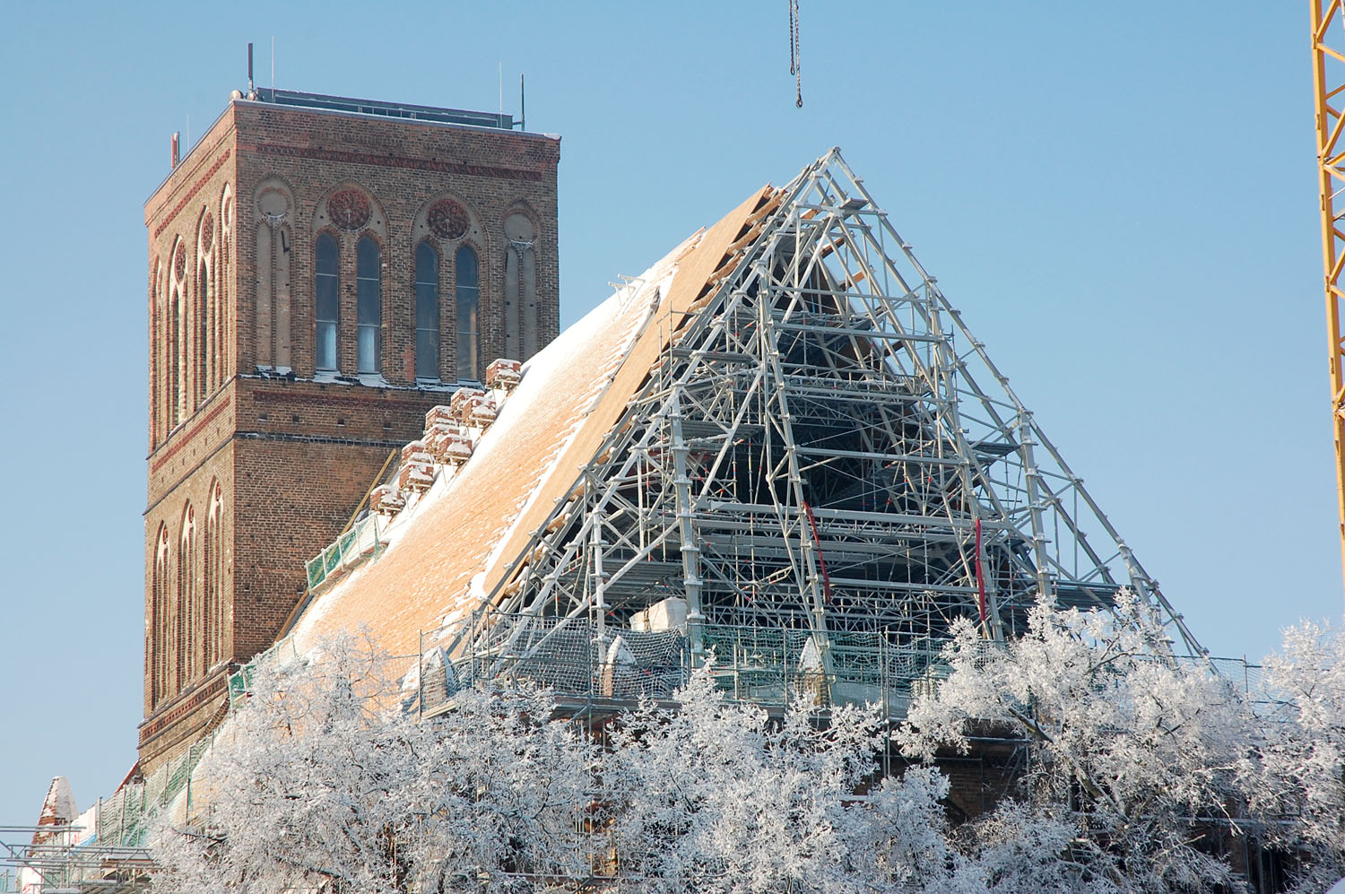 church "St. Nikolai" Anklam, Germany reconstruction 2010